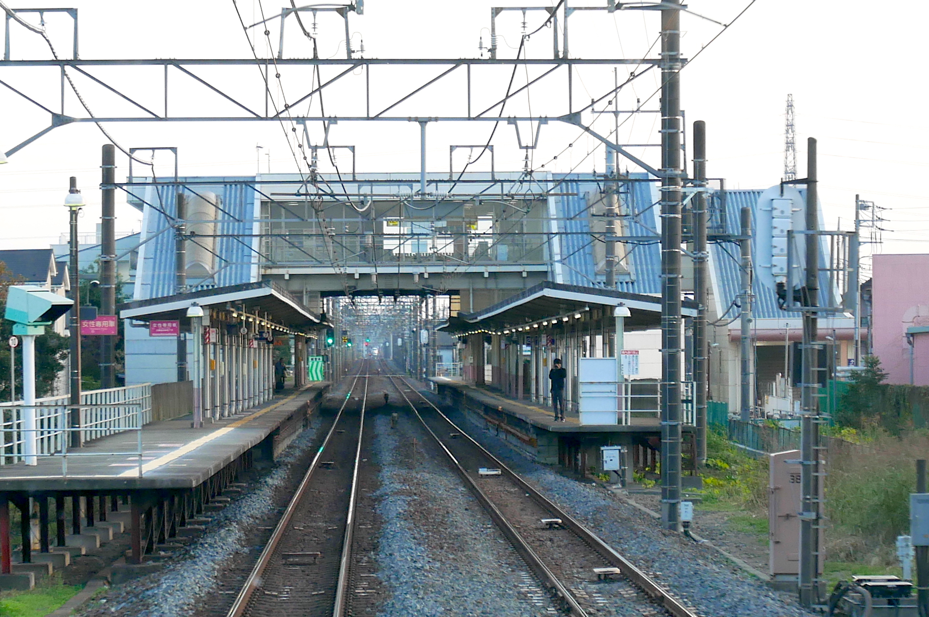 Himemiya Station platforms (姫宮駅のホーム)